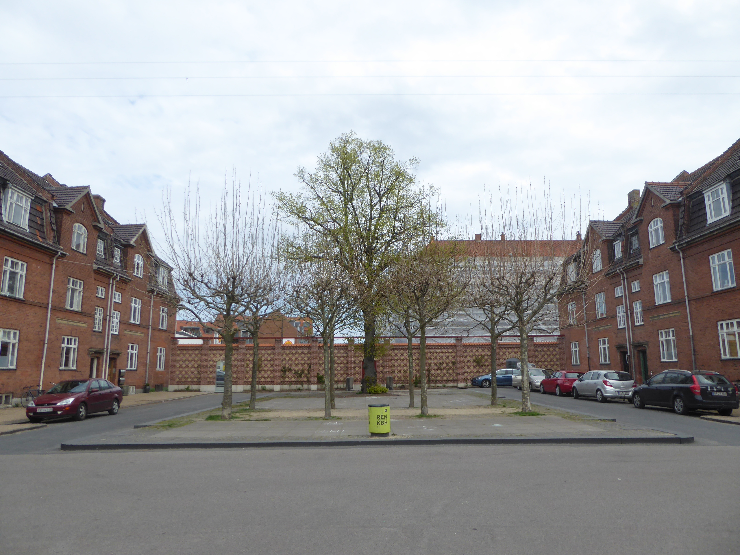 Unnamed square at the end of F.F. Ulriks Gade in Østerbro in Copenhagen.